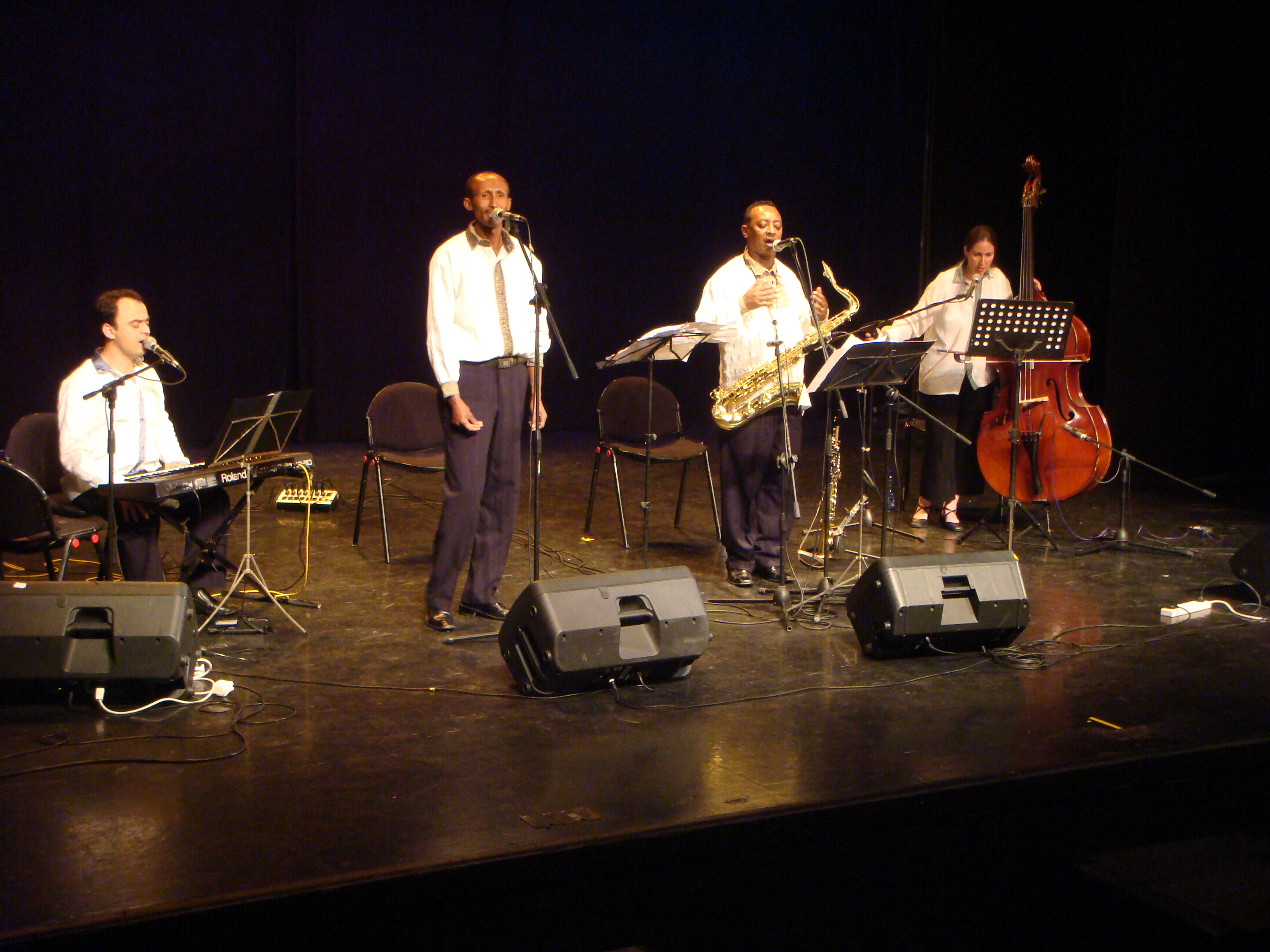 Tezeta Ensemble in concert at Inbal Theatre, Suzanne Dellal Centre, Tel-Aviv, Israel